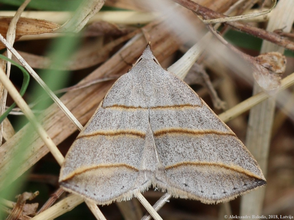 Colobochyla salicalis